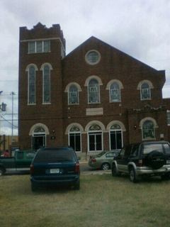 Sixth Mount Zion Baptist Church